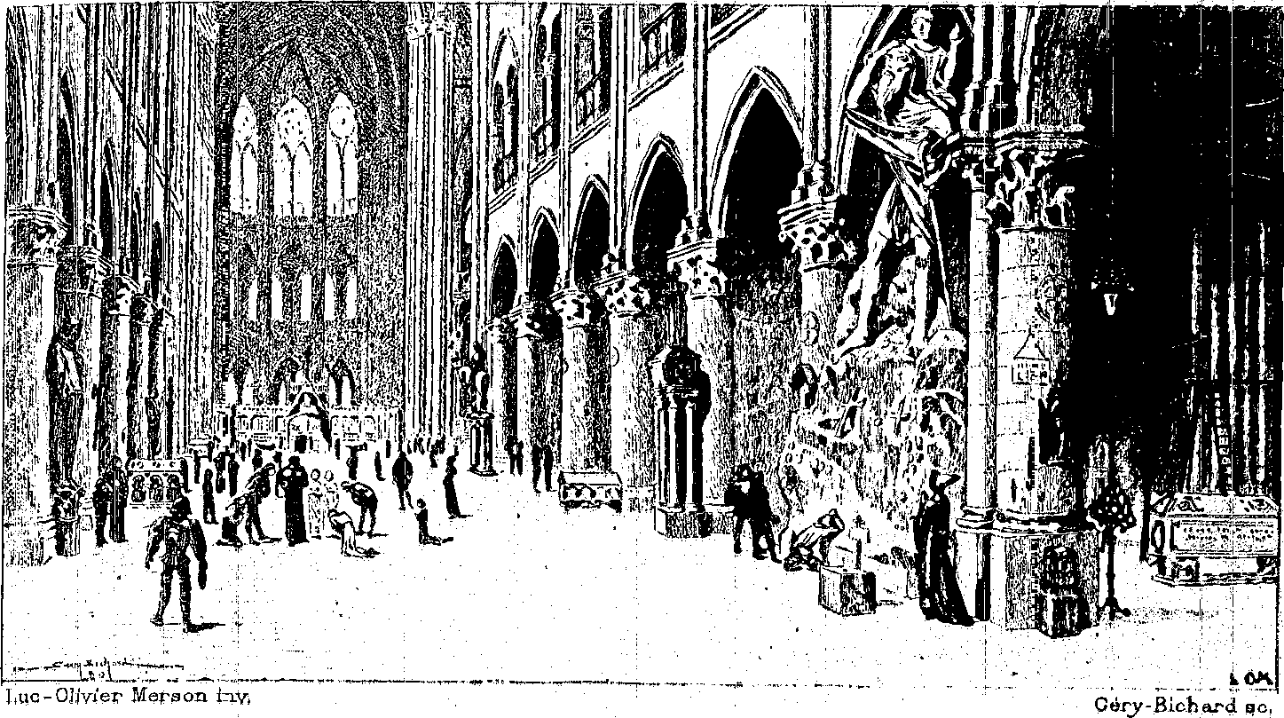 The illustration at the beginning of chapter 1, book 3, from page 165 of Notre-Dame de Paris (The Hunchback of Notre Dame) by Victor Hugo, from the 1889 edition.